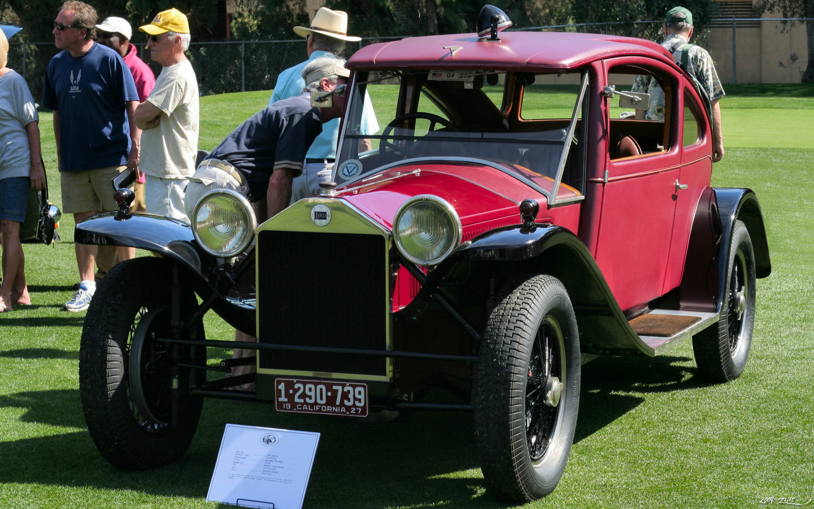 1927 Lancia Lambda Airway Saloon, produced by the English body maker Albany on a standard short wheelbase "Lambda" 7th series type 219. It was ordered for the Olympia Motor Show in London in honor of the trans-Atlantic crossing of Charles Lindbergh. The Lancia engine is a type 78 with 4-cylinder V with a displacement of 2,375 cm3. The instrument panel is equipped with a wind gauge and altimeter.